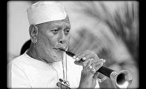 उस्ताद बिस्मिल्ला ख़ाँ